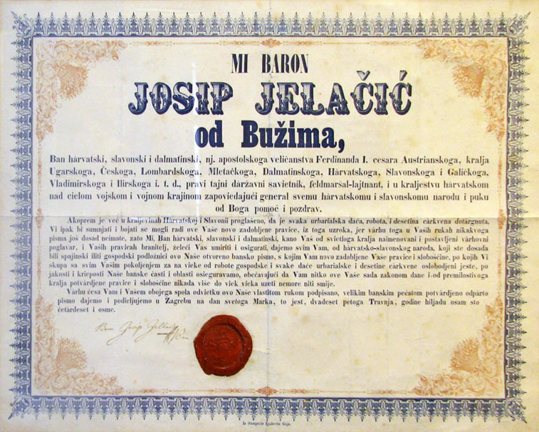 The proclamation by Ban Josip Jelaćić abolishing serfdom in the Kingdom of Croatia, dated April 25 1848 (retouched and repaired version)